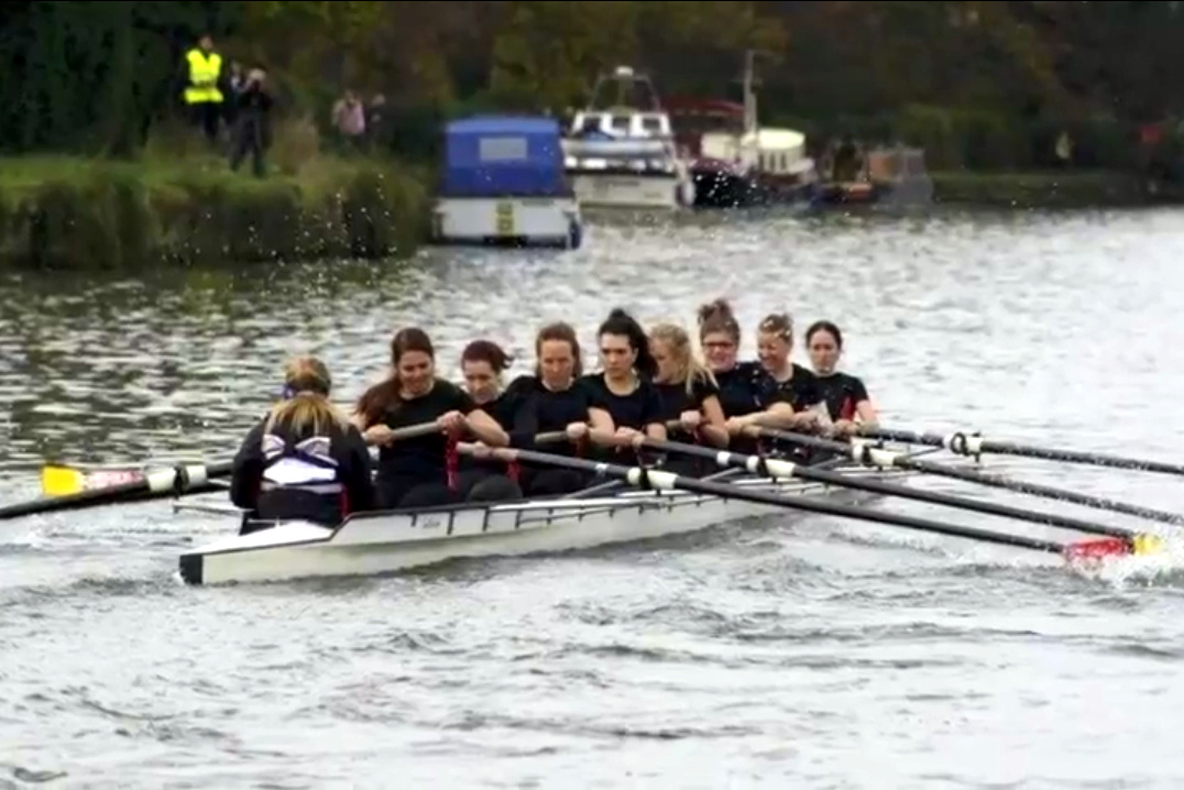 A St Antony's College Boat Club women's 8.